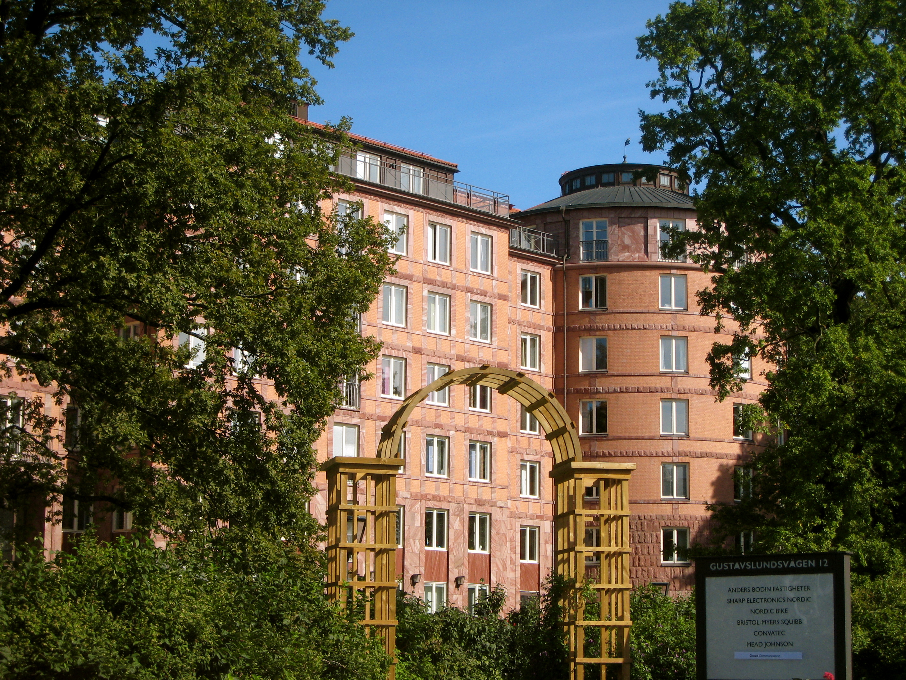 HQ for Anders Bodin Fastigheter in Alvik, Stockholm.